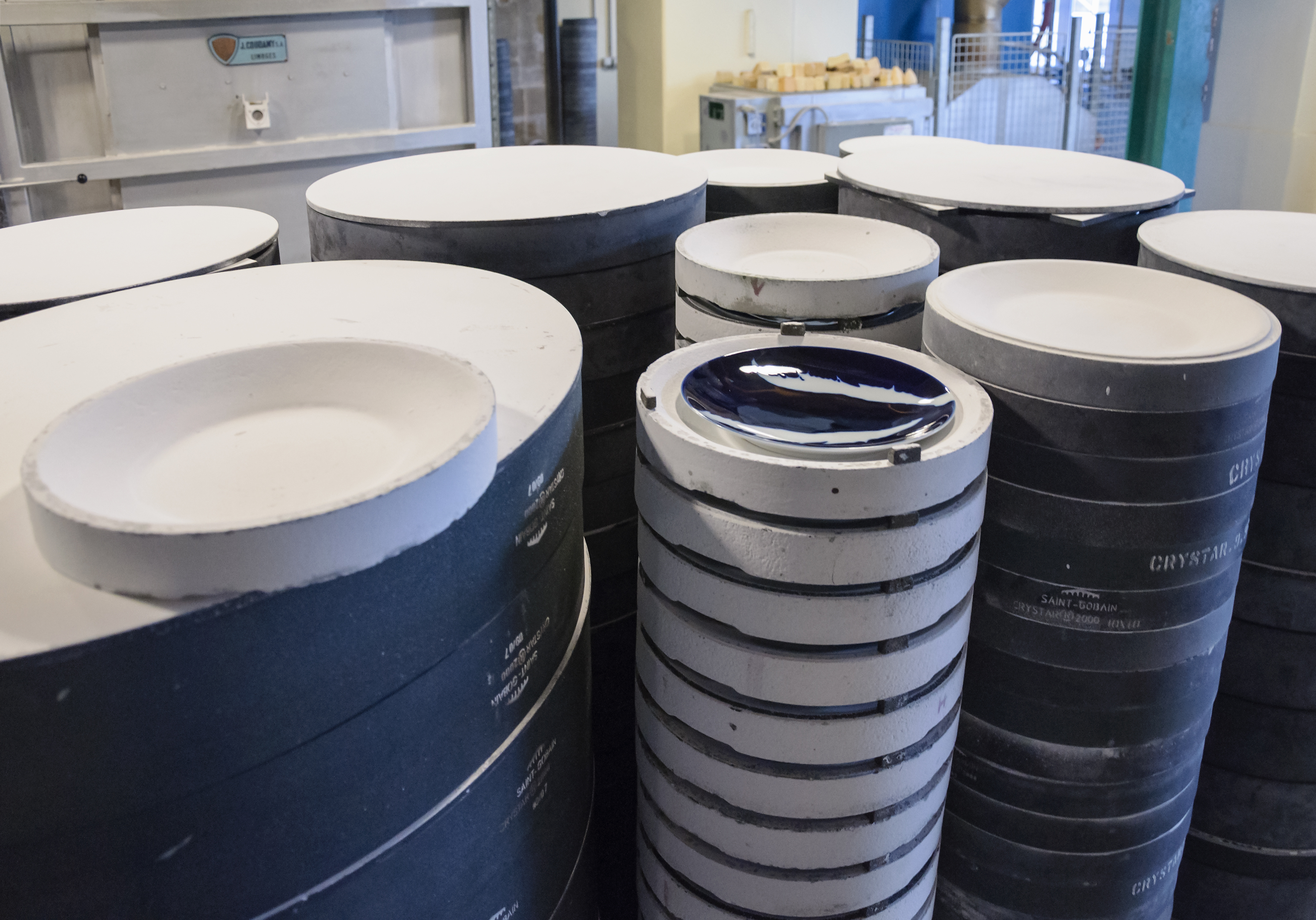 Pieces coming from a white ware kiln at manufacture nationale de Sèvres, still in their sagggars